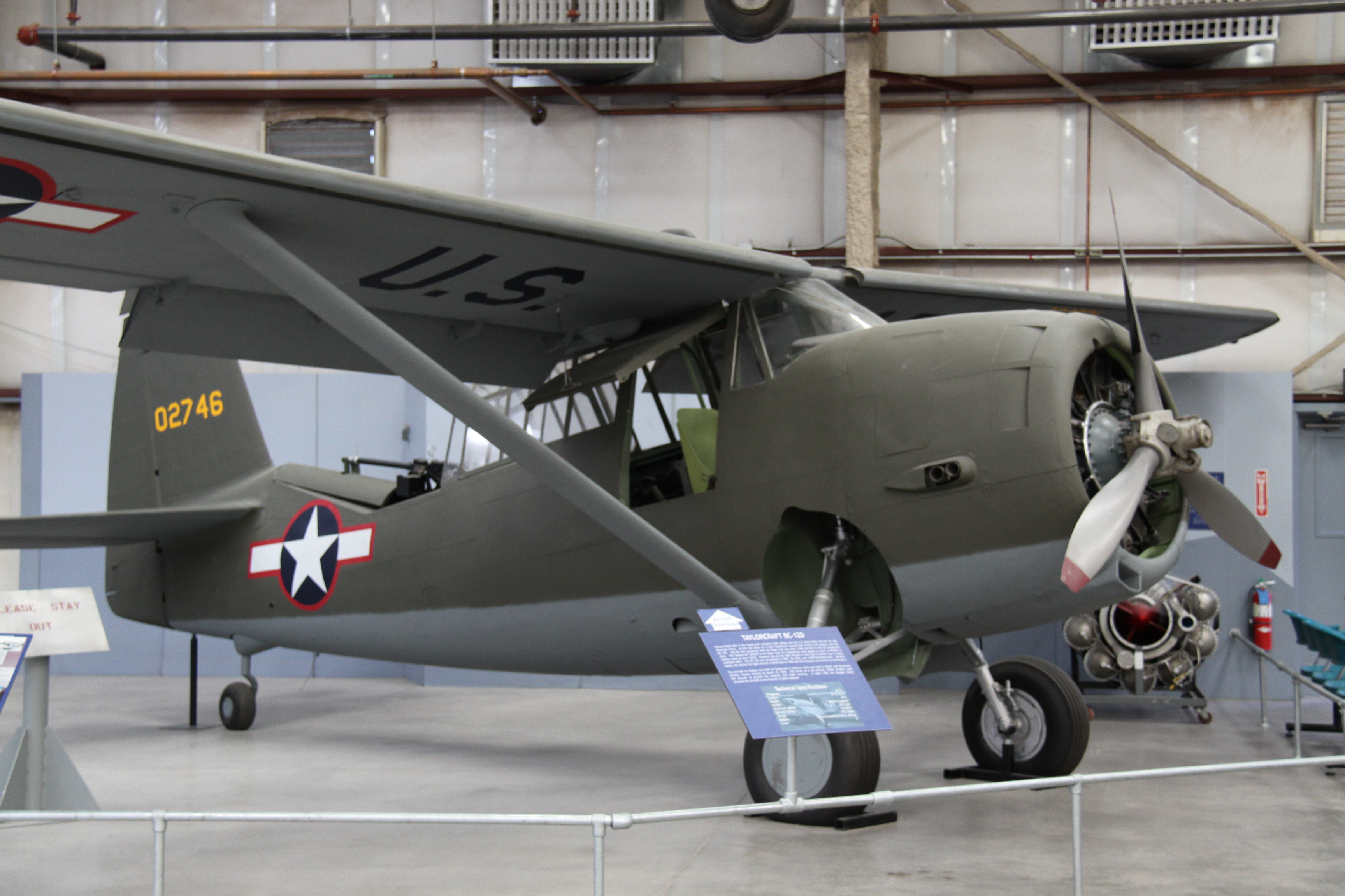 At Pima Air & Space Museum